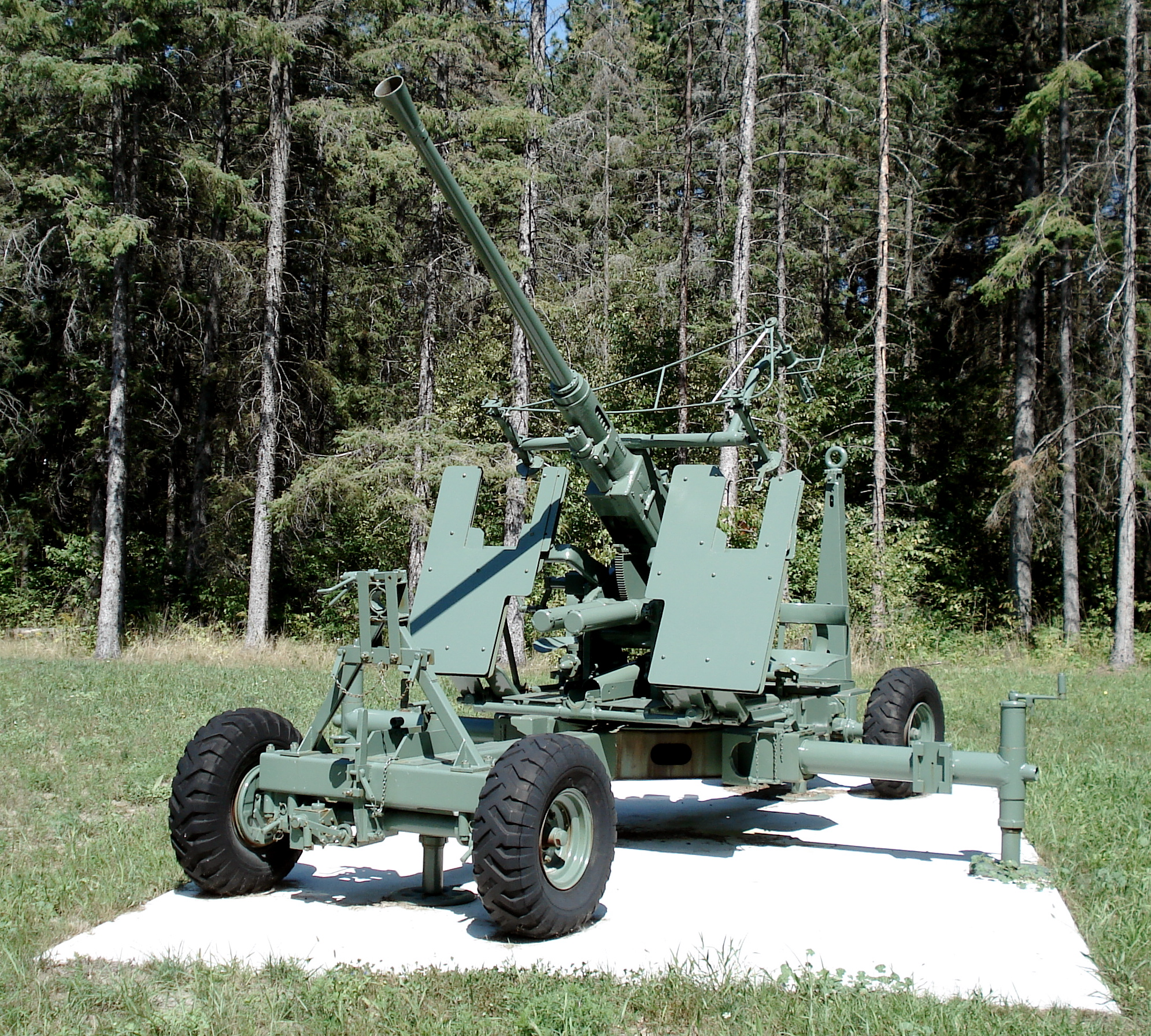 British 40 mm Q.F. 40 mm Mk. 1 anti-aircraft gun (British version of Bofors 40 mm gun), displayed on the grounds of CFB Borden (Base Borden Military Museum). Photo taken on August 12, 2006. Source: Photo by me, User:Balcer.